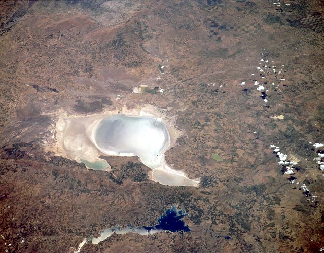 Lake Tuz in Turkey